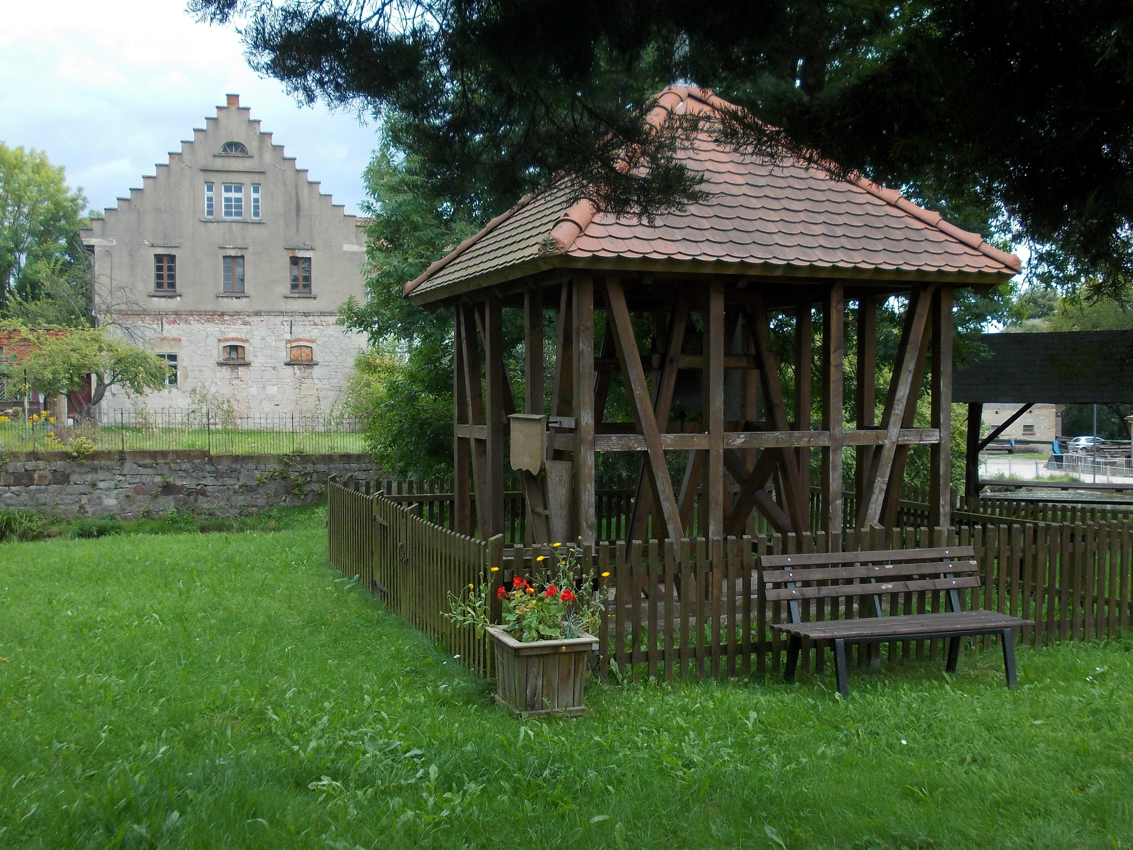 Bell cage in Seidewitz (Molauer Land, district: Burgenlandkreis, Saxony-Anhalt), containing the bell of the former church of the village (demolished in 1965)